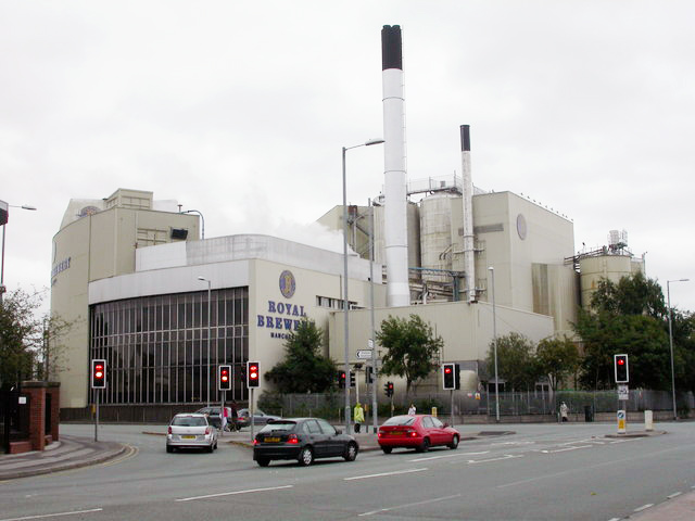 Moss Side, Royal Brewery At the junction of Princess Road and Moss Lane East, capable of brewing 1.3 million barrels of beer a year; no cask ale produced.